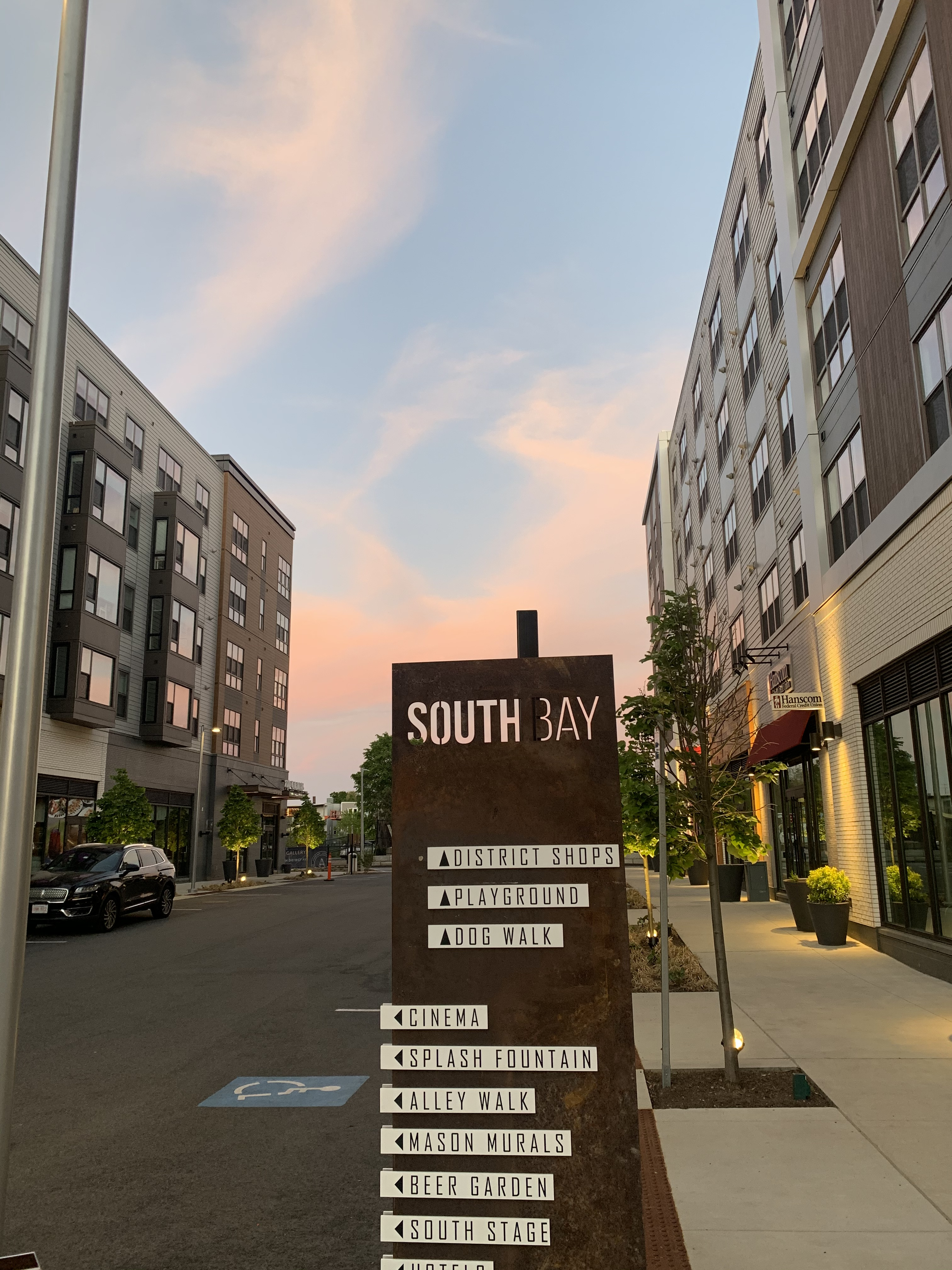 District Avenue, within South Bay, Boston, Massachusetts, including retail and residential units